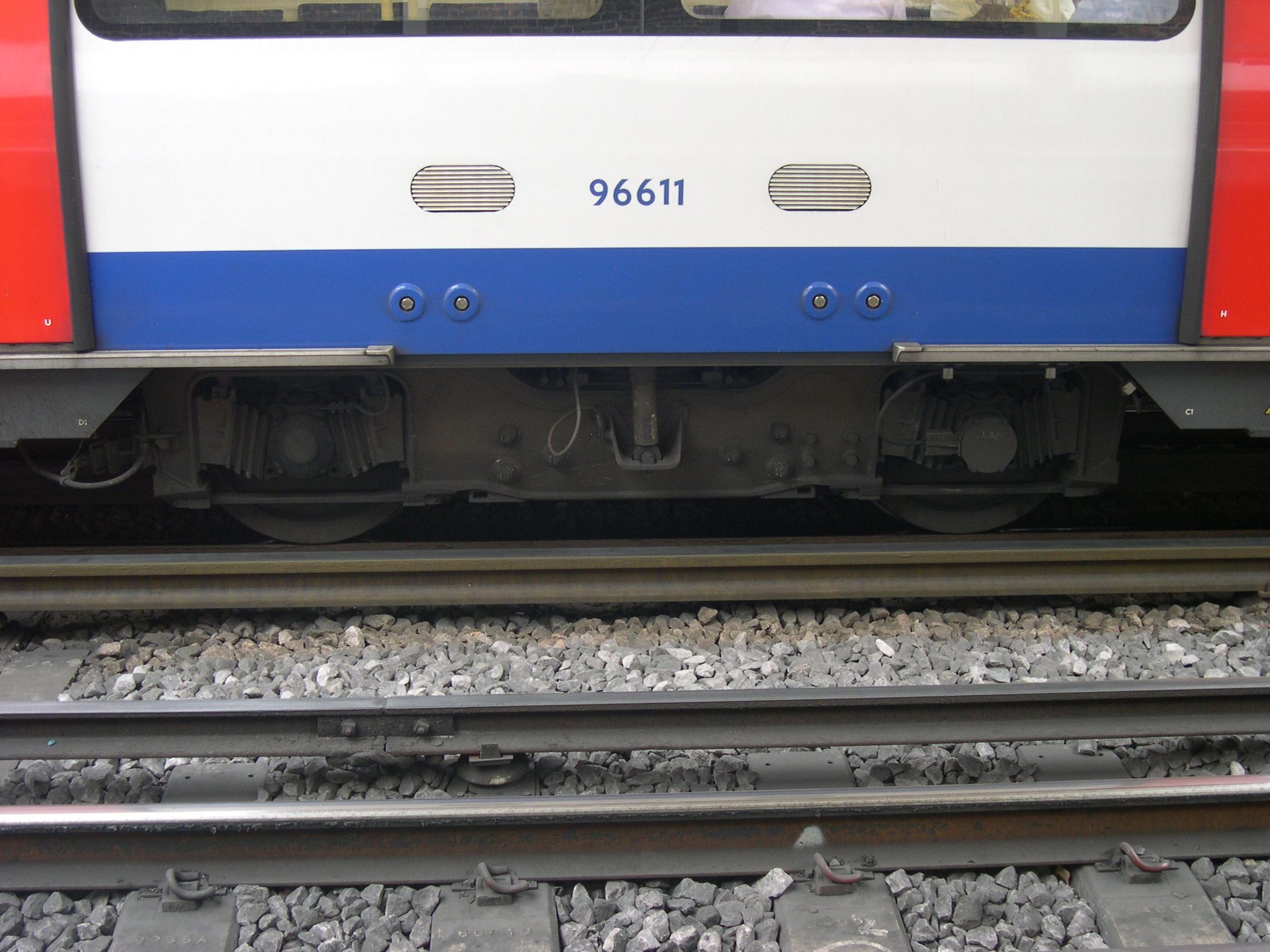 Bogie of a 1996 tube stock at Finchley Road Station